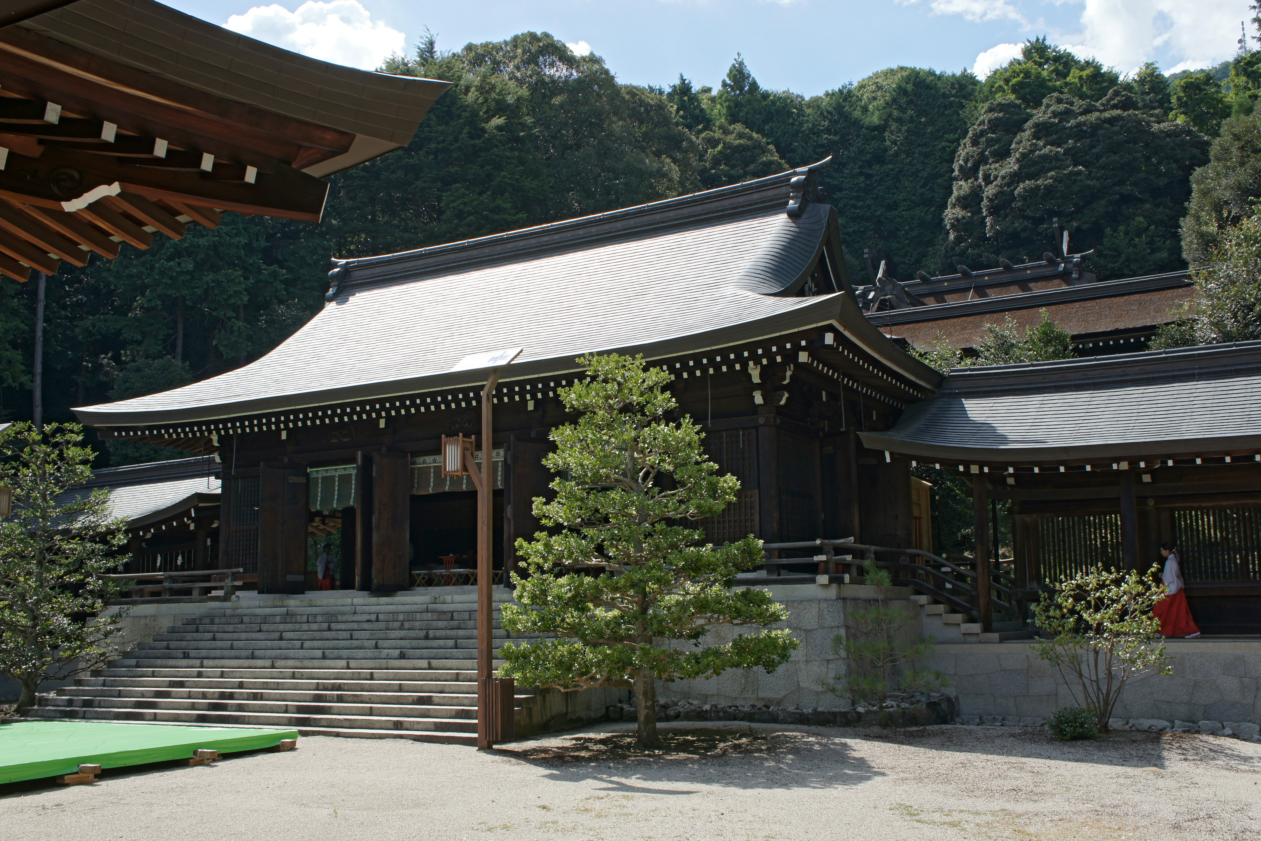 Oumi-jingu in Otsu, Shiga prefecture, Japan.